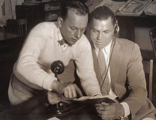 A photo of cartoonist Billy DeBeck with boxing champion Jack Dempsey in 1919